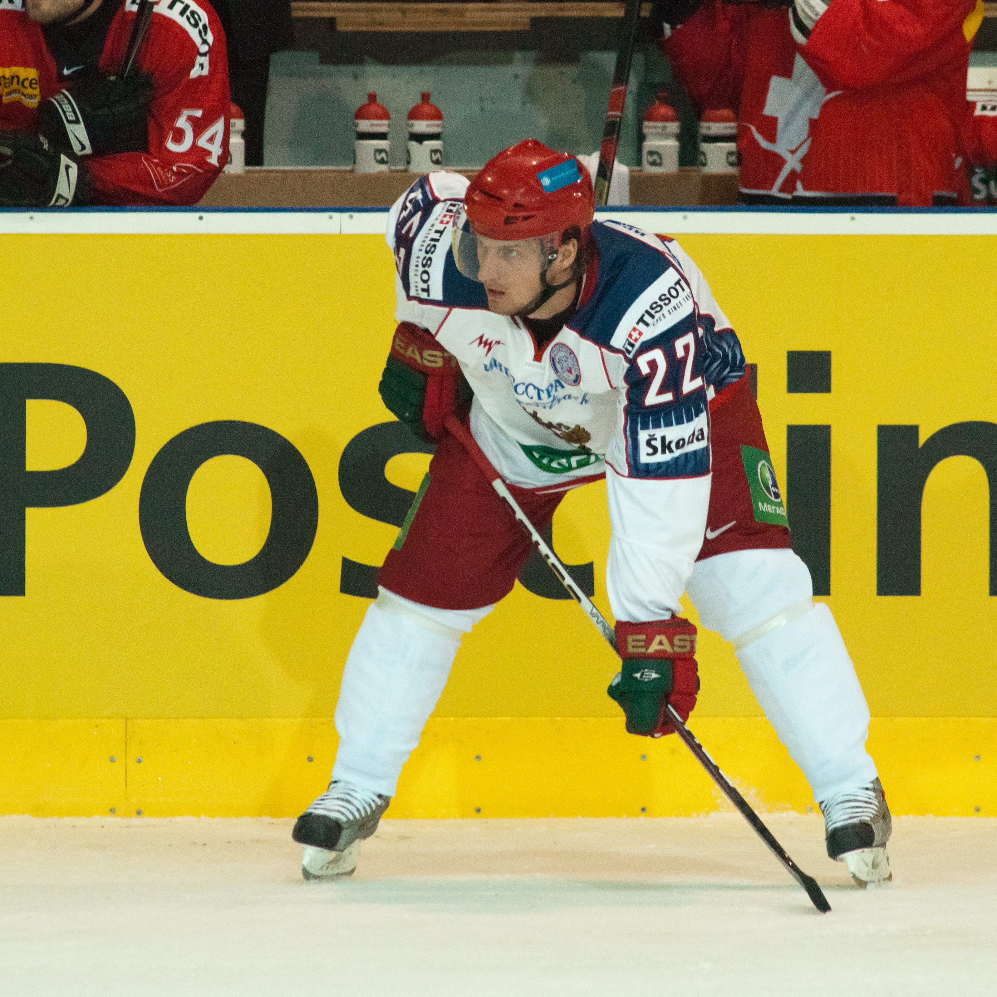 The making of this document was supported by Wikimedia CH. (Submit your project!) For all the files concerned, please see the category Supported by Wikimedia CH. Switzerland vs. Russia, 8th April 2011